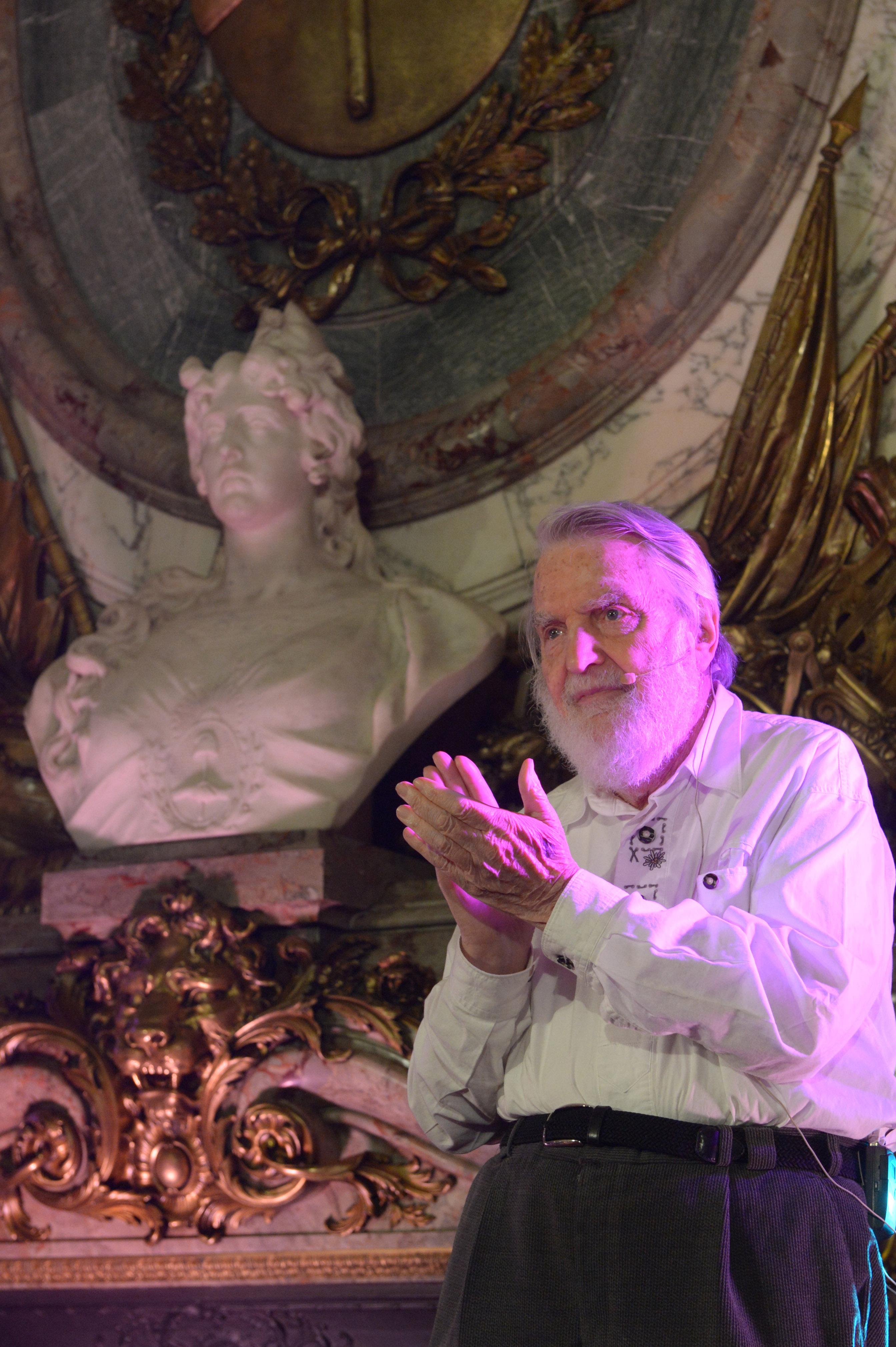 Osvaldo Bayer, argentinean sociologist, at Pink House Osvaldo Bayer, historiador y sociólogo en la Casa Rosada presentando el espectáculo "Tratado de Pax" con textos suyos.